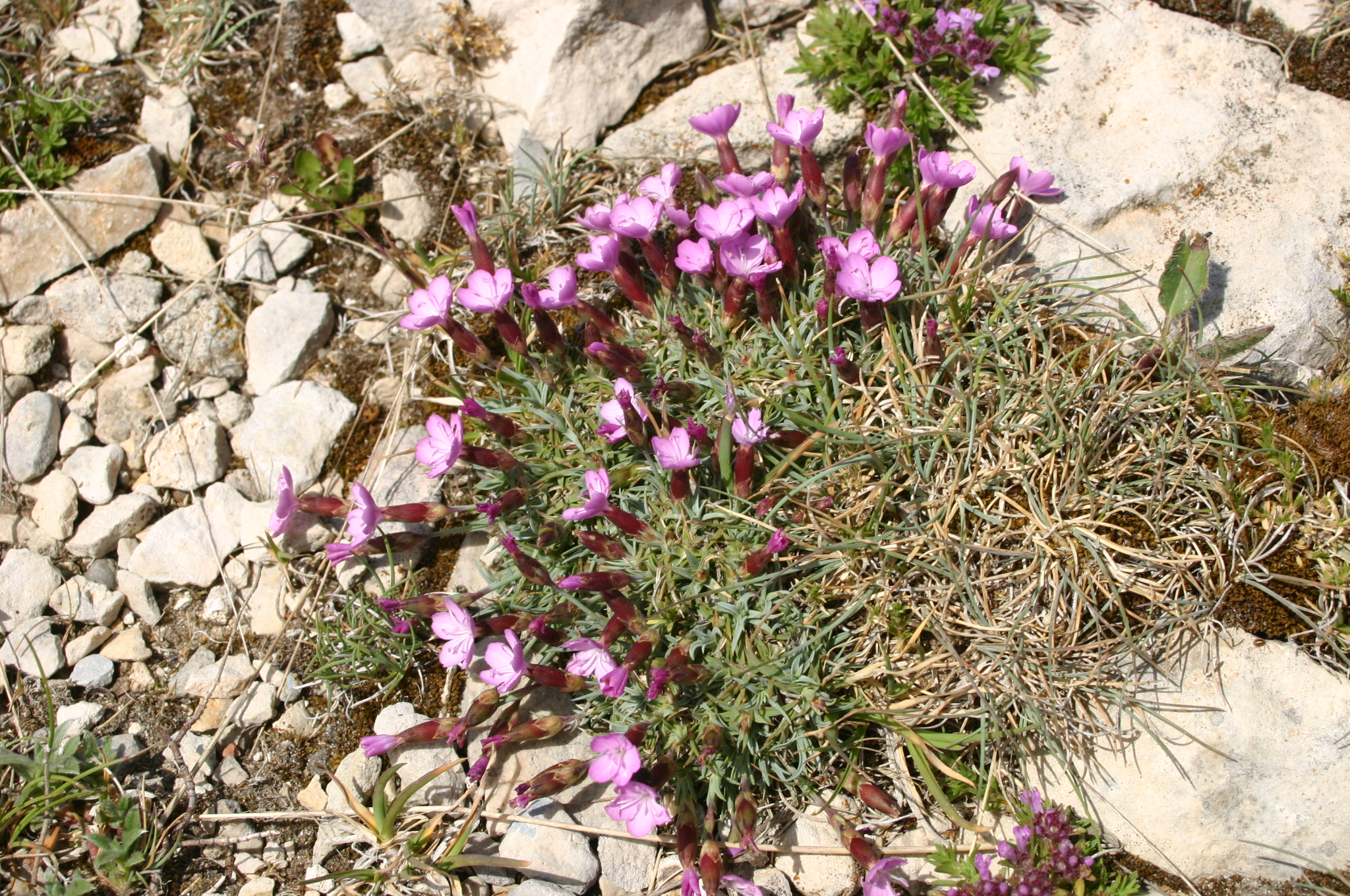 Dianthus subacaulis: Flowers and foliage